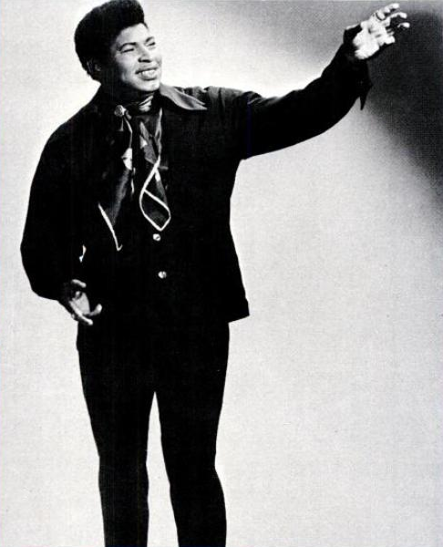 Trade ad for Ted Taylor's single "It's Too Late". To better adapt it to his respective Wikipedia article, the ad was cropped and cleaned in a graphics editing program. The original can be viewed at the source below.